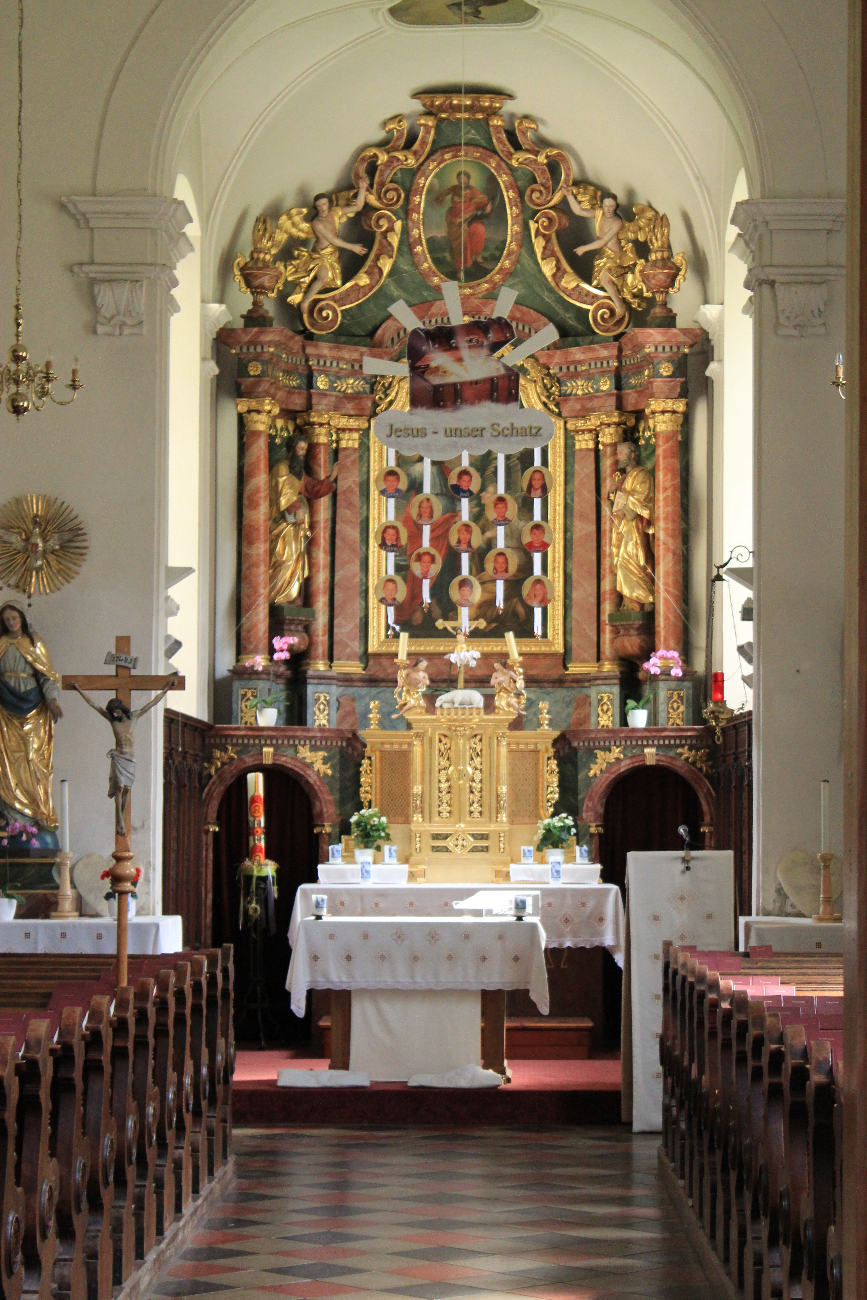 Church of Flattach